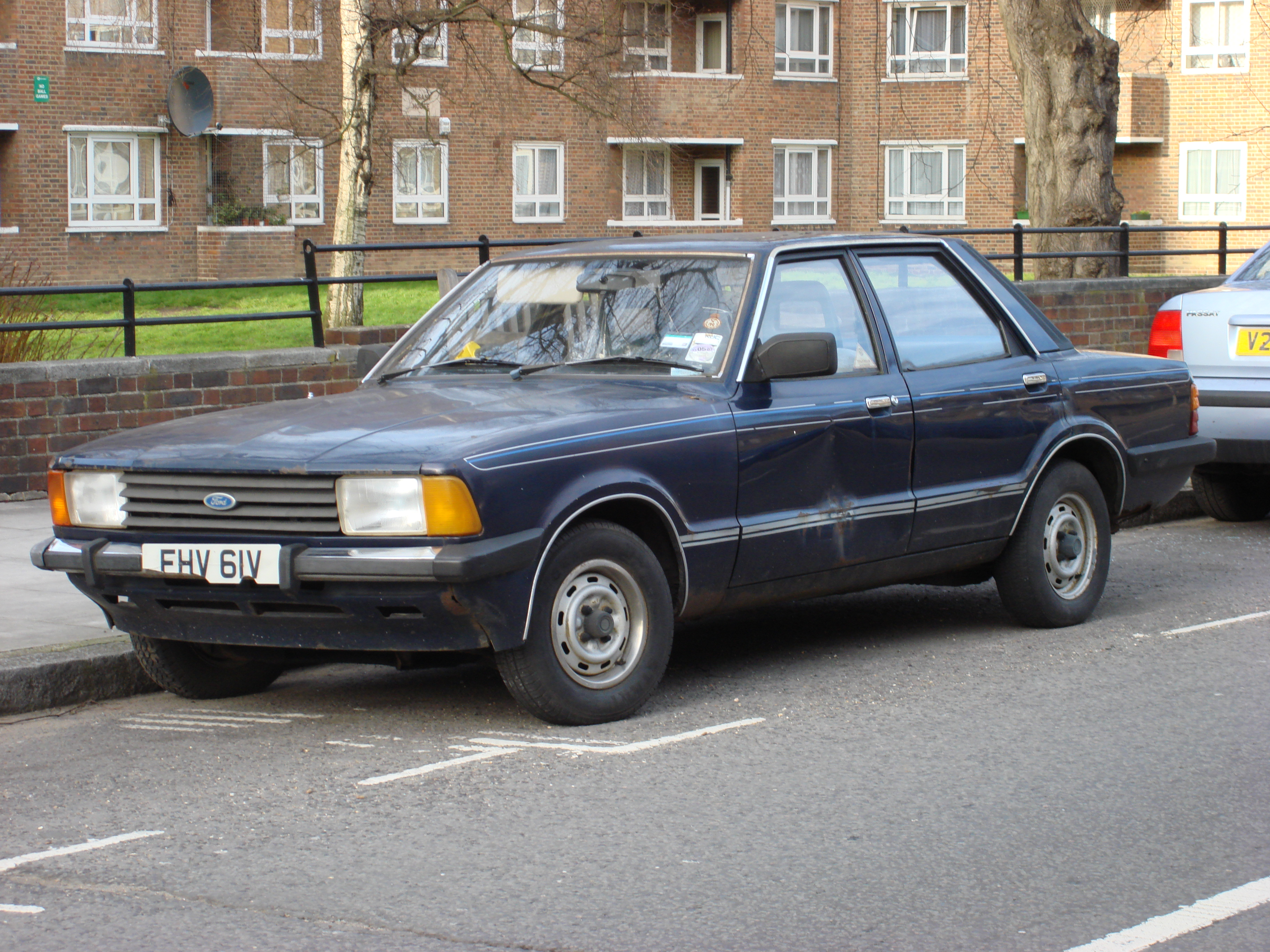 A Mk4 Ford Cortina in St John's Wood, London, UK